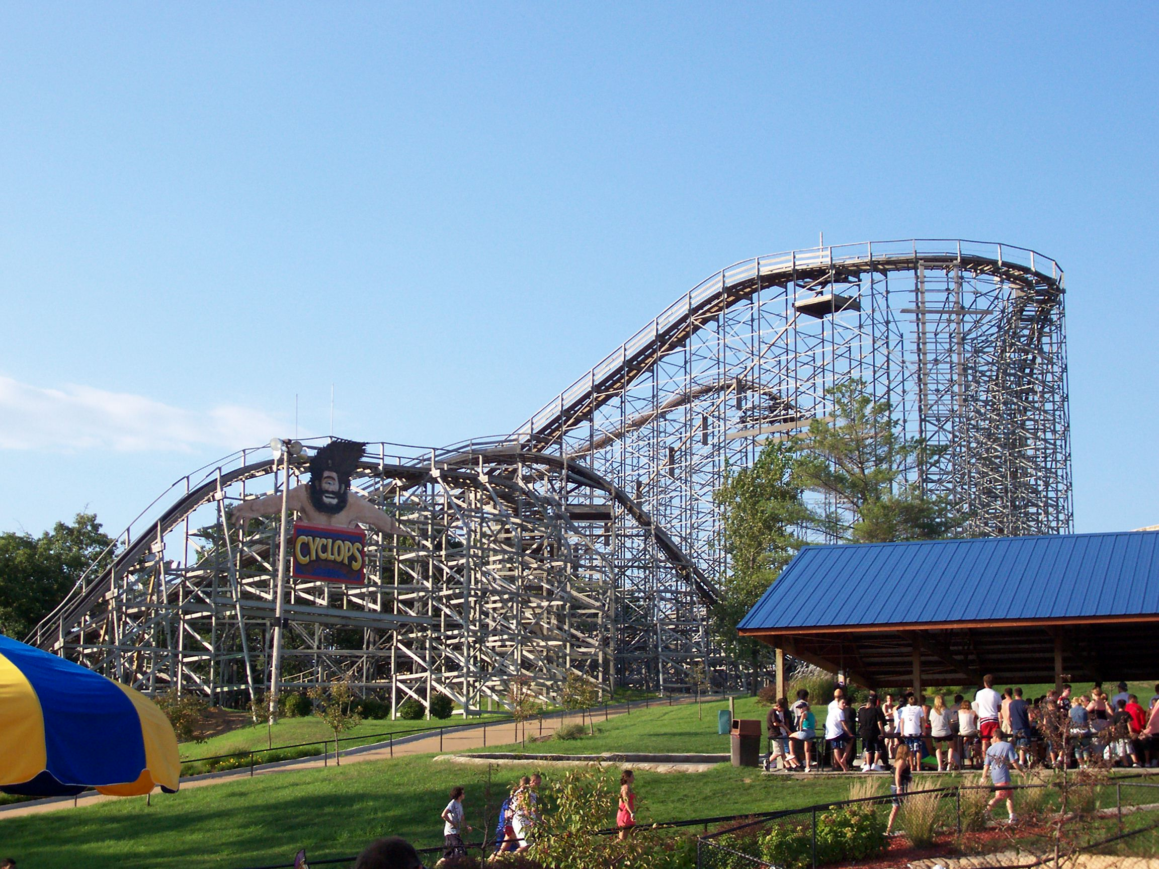 The Cyclops (roller coaster), a rollercoaster at Mt. Olympus Water & Theme Park in Wisconsin Dells, Wisconsin, USA. Taken September 2, 2007 by myself.